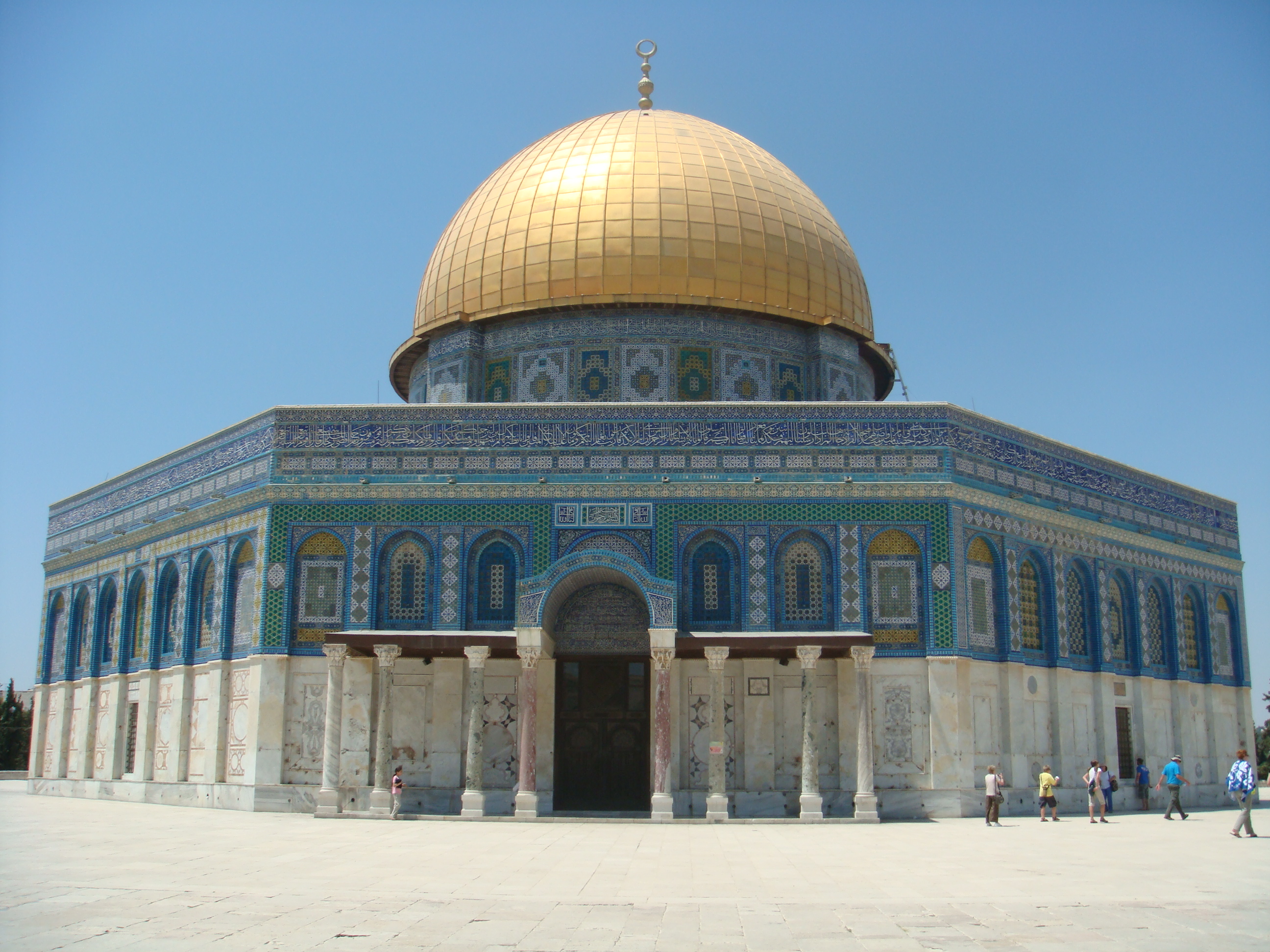 Al-Aqsa Mosque